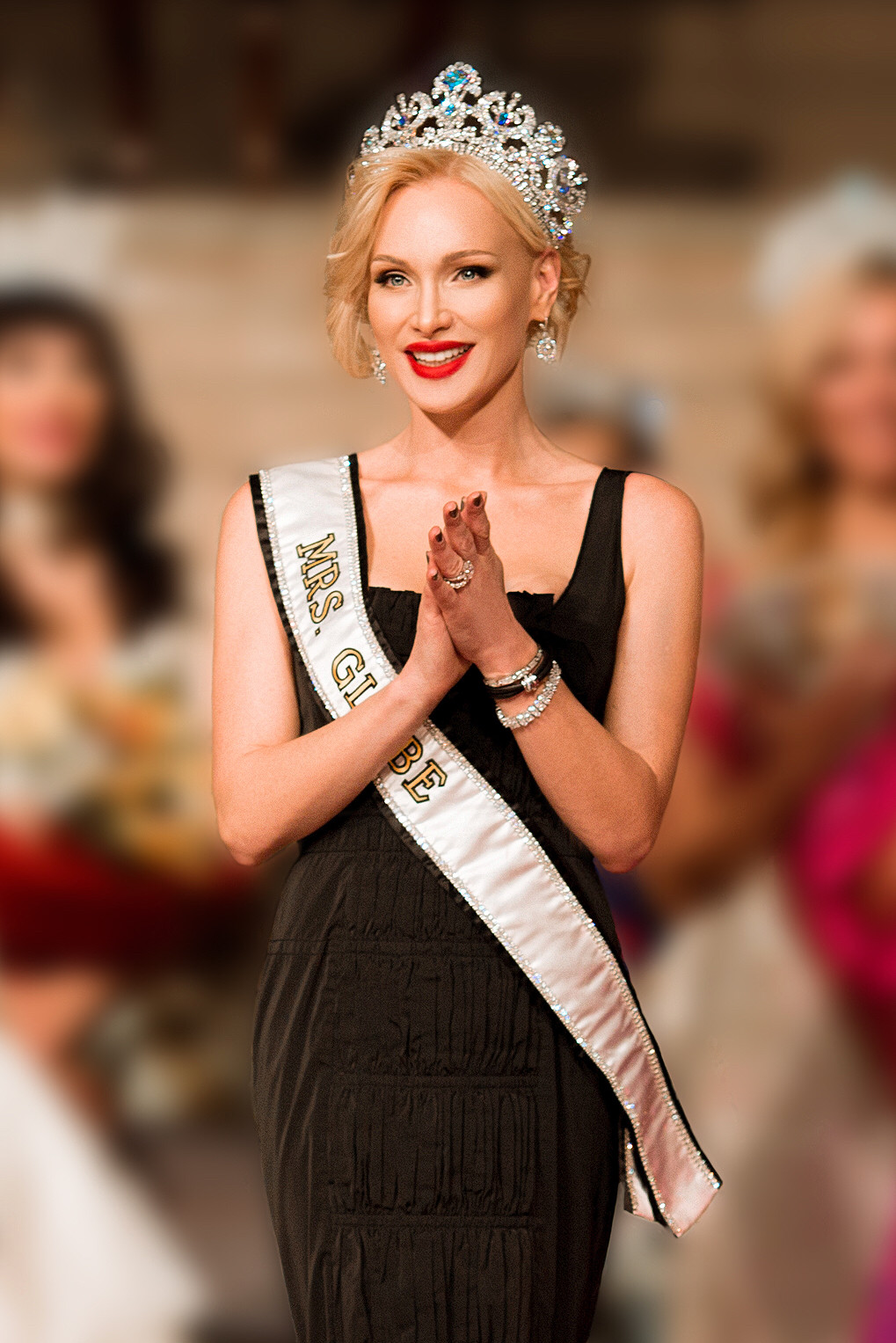 The photo of Alisa Krylova